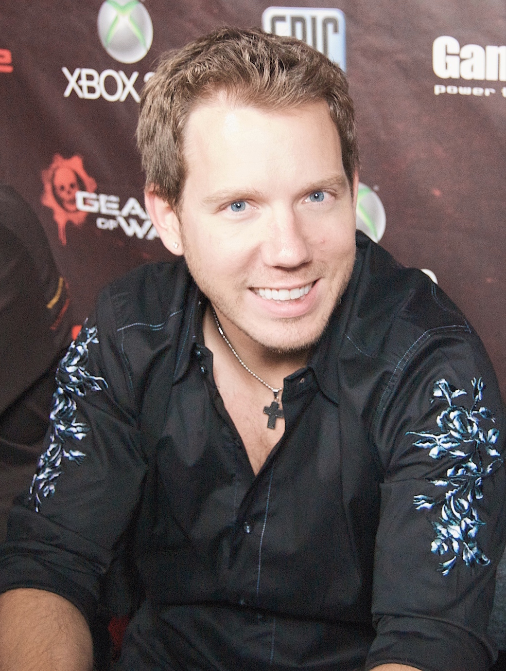 Cliff Bleszinski